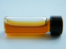 fullerene in water